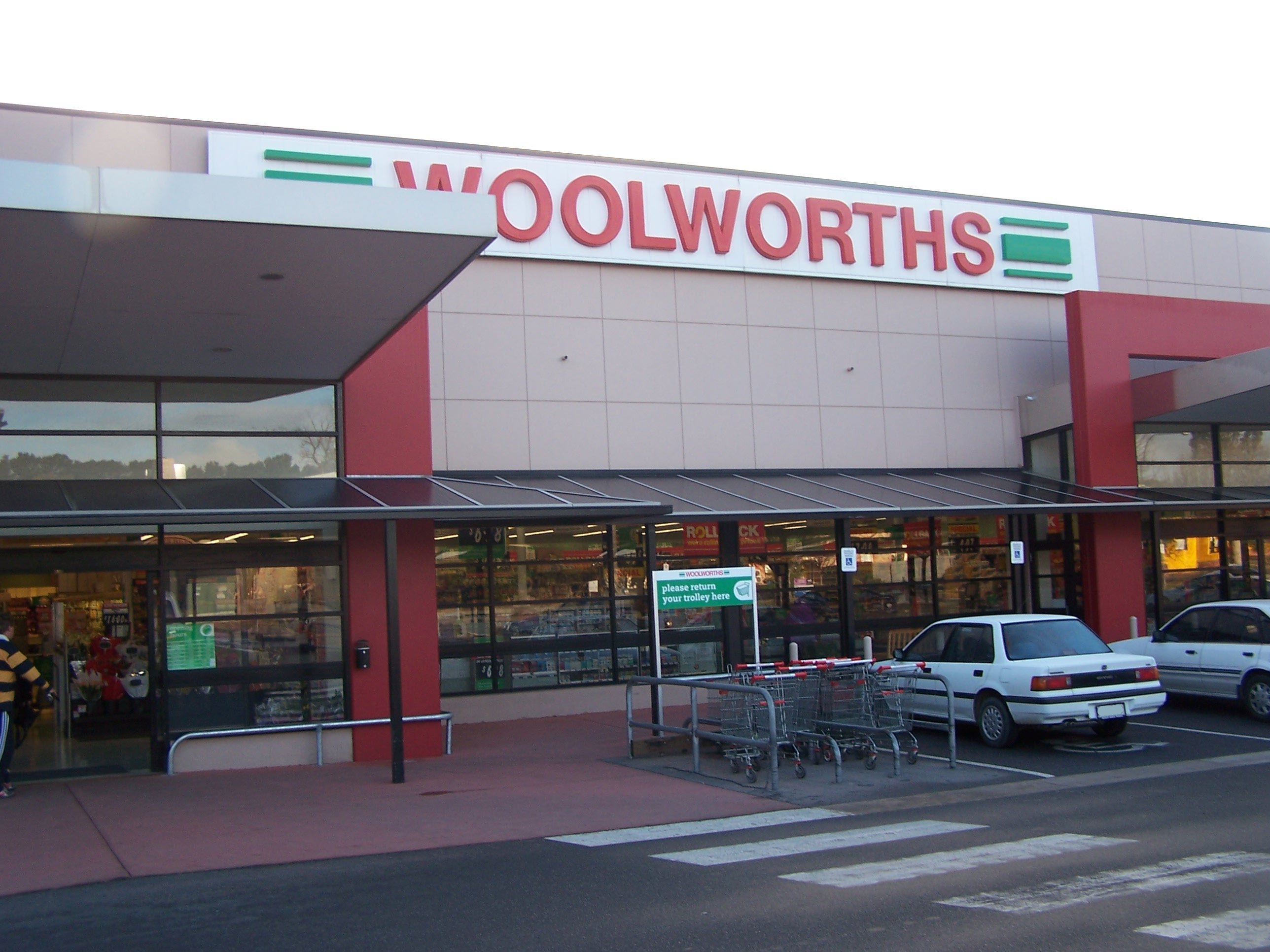 See above